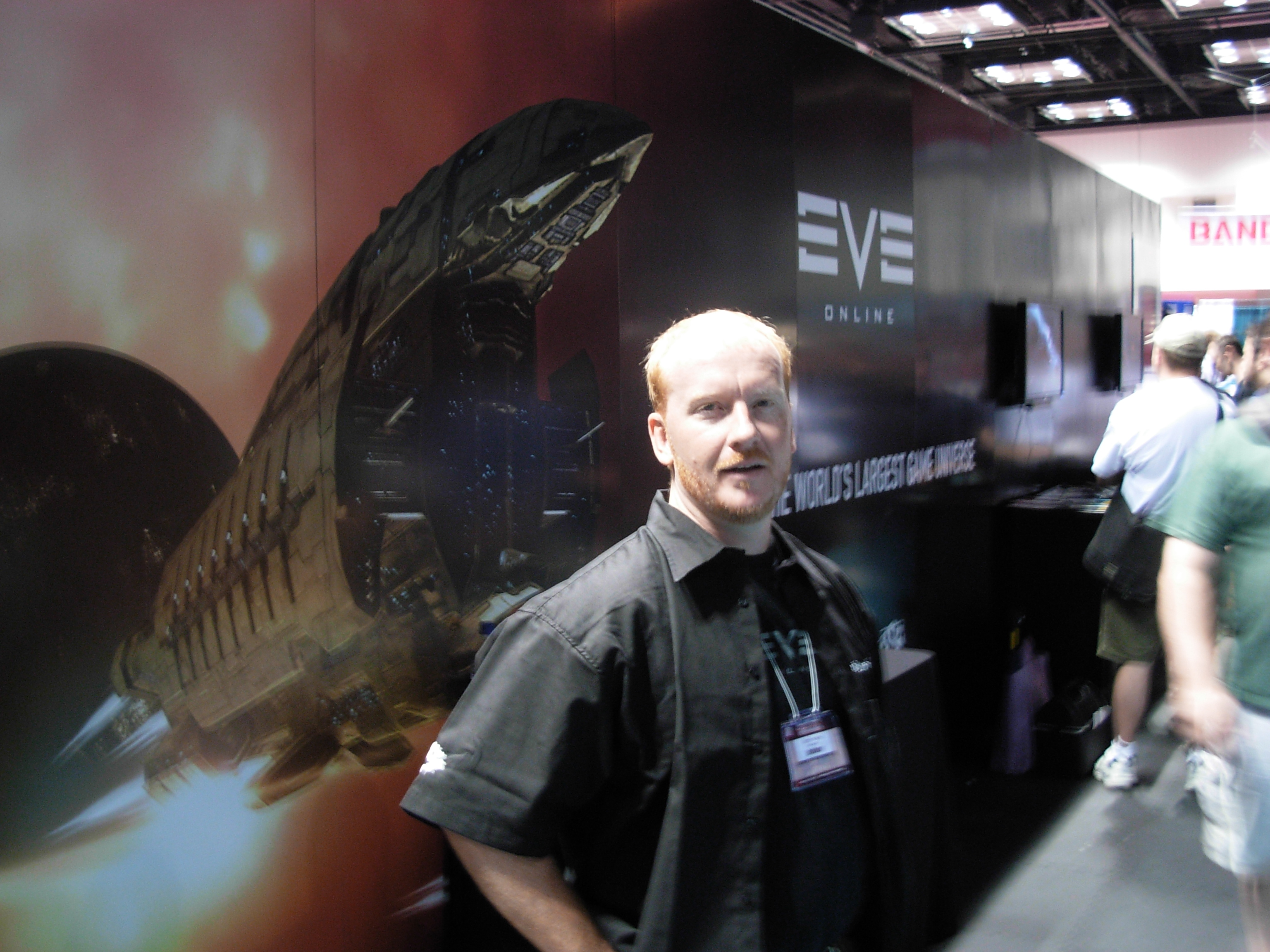 Photos from Gen Con Indy 2007.